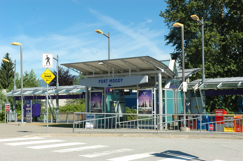 Entrance to the Port Moody commuter rail station